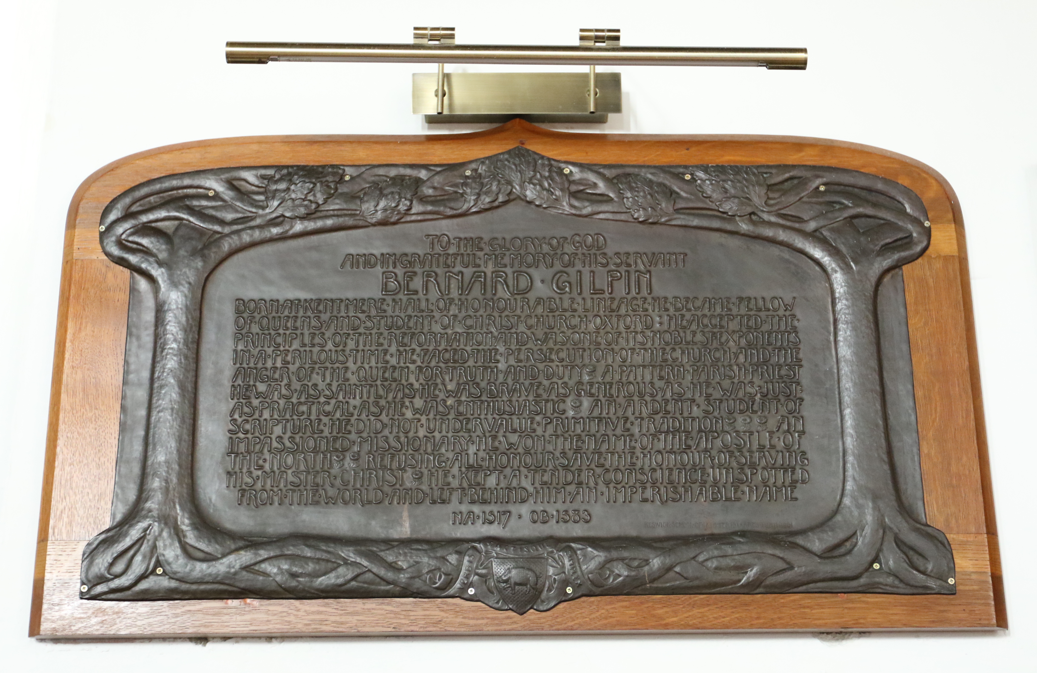 Bernard Gilpin, died 1583. Memorial dates from 1901 by Herbert Maryon of the Keswick School of Industrial Arts, bronze with foliage frame: 'Arts and Crafts, almost Arts and Crafts, almost Art Nouveau'